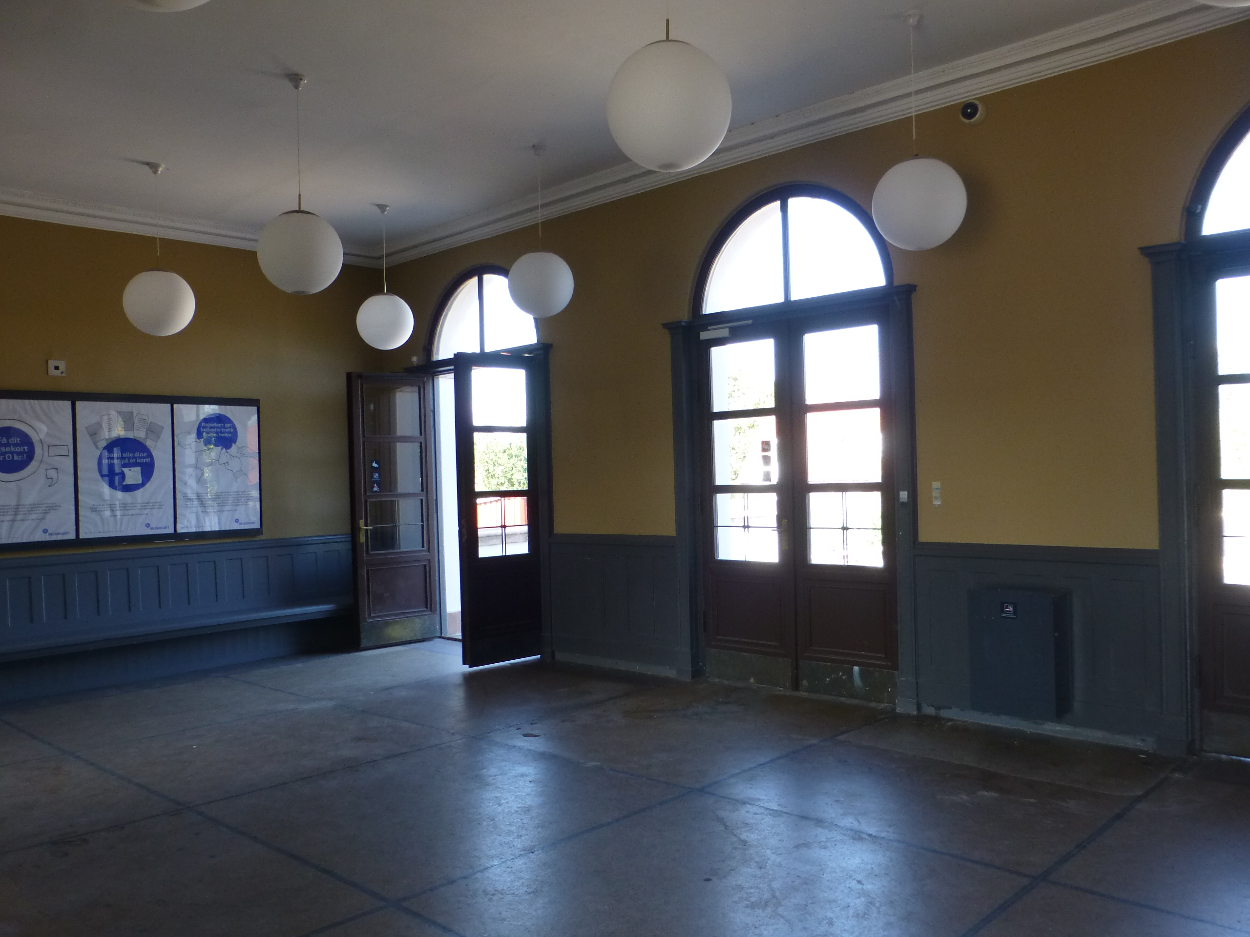 Ordrup Station on Klampenborgbanen between Copenhagen and Klampenborg.